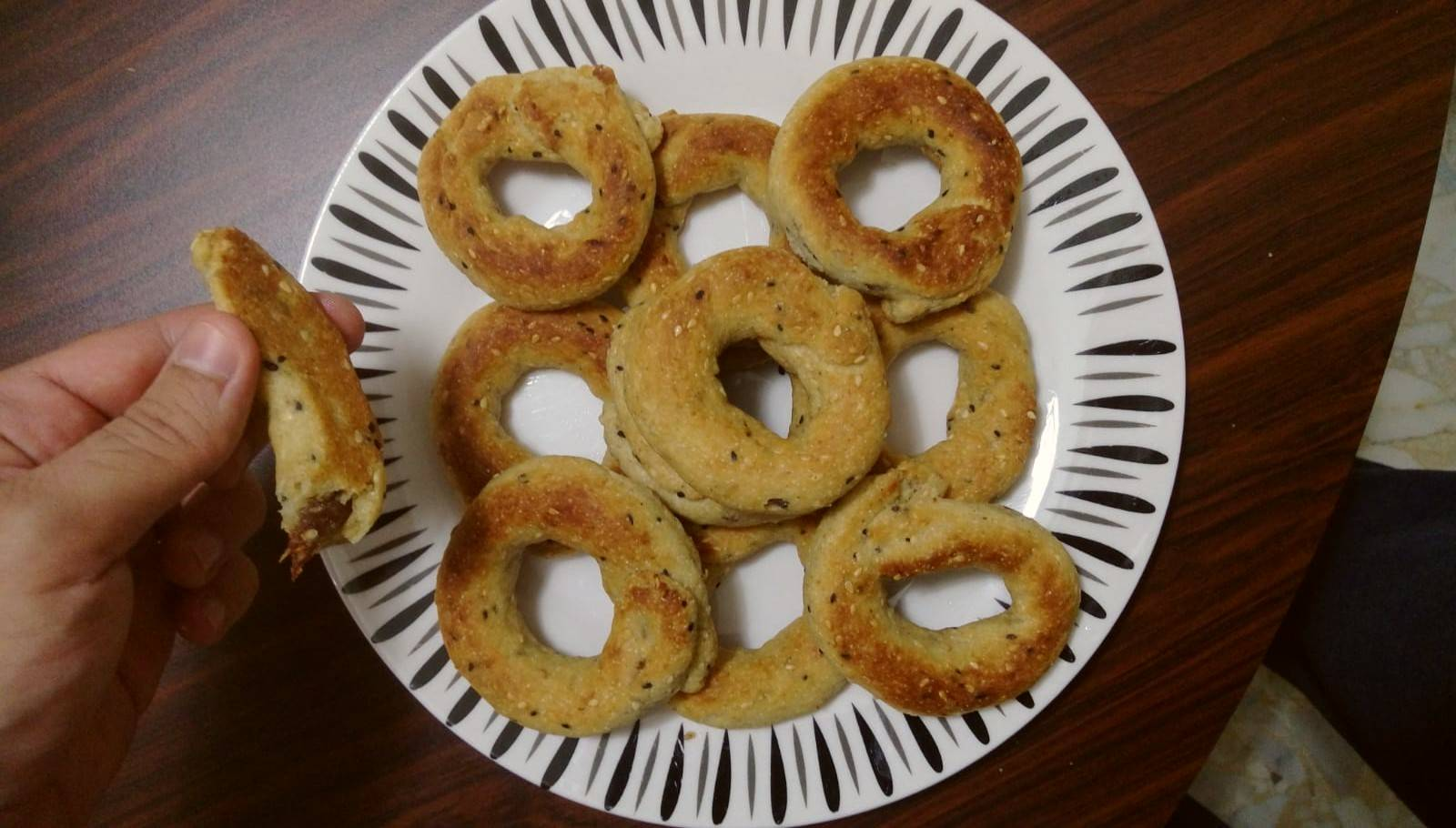 Semolina-based Ka'ak from Palestine, filled with date paste.